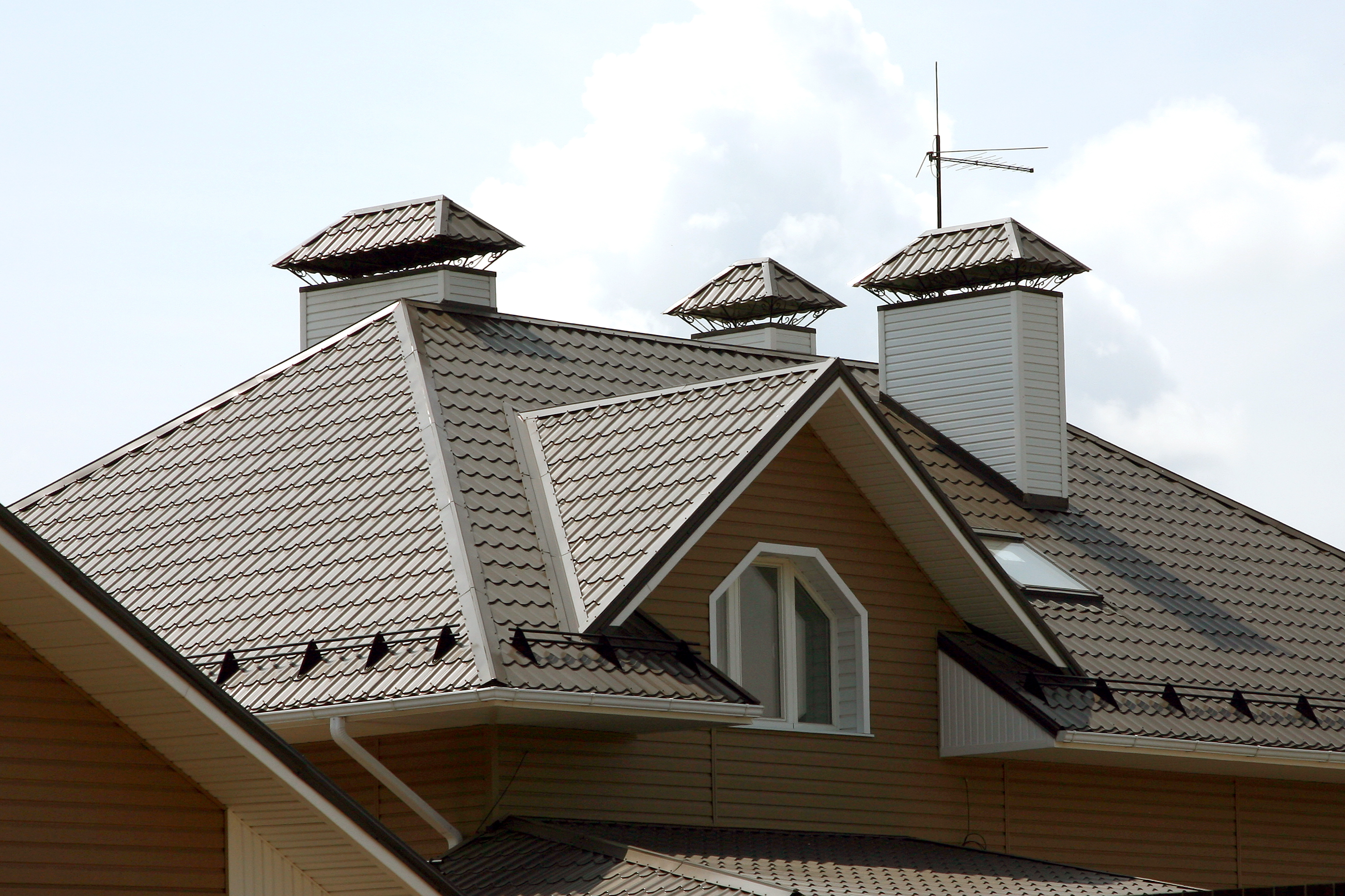 Металлочерепица коричневого цвета